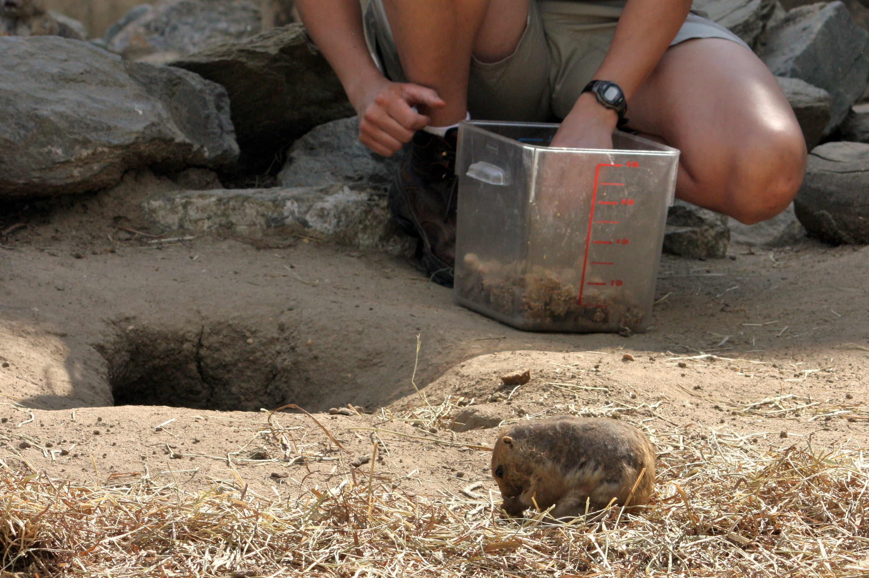 Black-tailed Prairie Dog (Cynomys ludovicianus), being fed by a zoo employee. Philadelphia Zoo, Philadelphia, Pennsylvania.